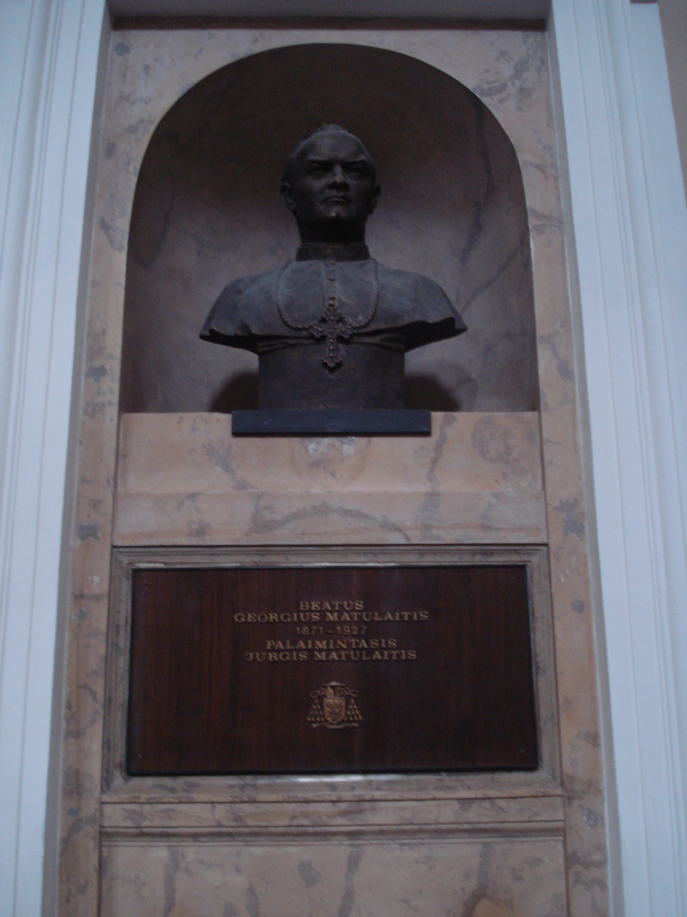 BEATUS GEORGIJUS MATULAITIS 1871—1927 PALAIMINTASIS JURGIS MATULAITIS in Vilnius CathedralLietuvių: Palaimintojo Jurgio Matulaičio memorialinė lenta ir biustas